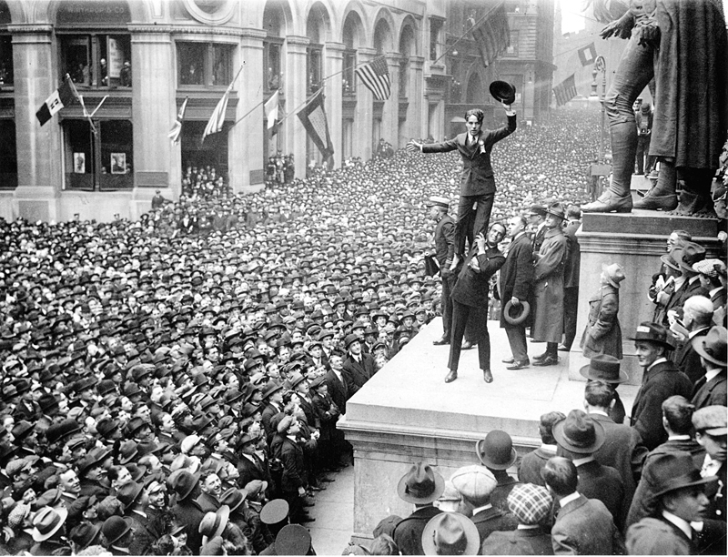 Charlie Chaplin stands on Douglas Fairbanks' shoulders during a Liberty bonds rally. They are at the foot of George Washington’s statue in front of the Sub-Treasury (now Federal Hall National Memorial).